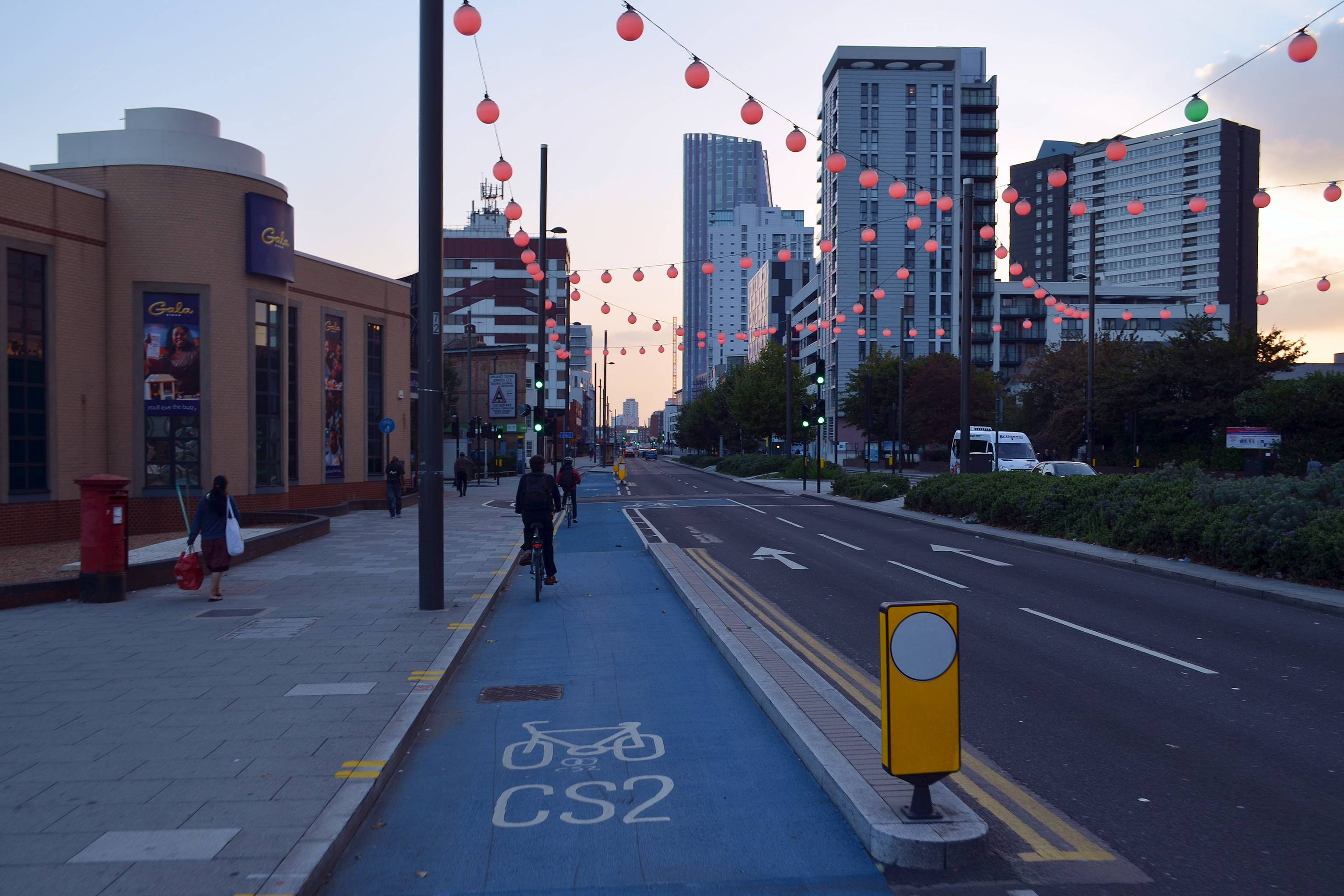 Cycle Superhighway 2 in front of Gala Bingo in Stratford, London, facing southwest in September 2014.